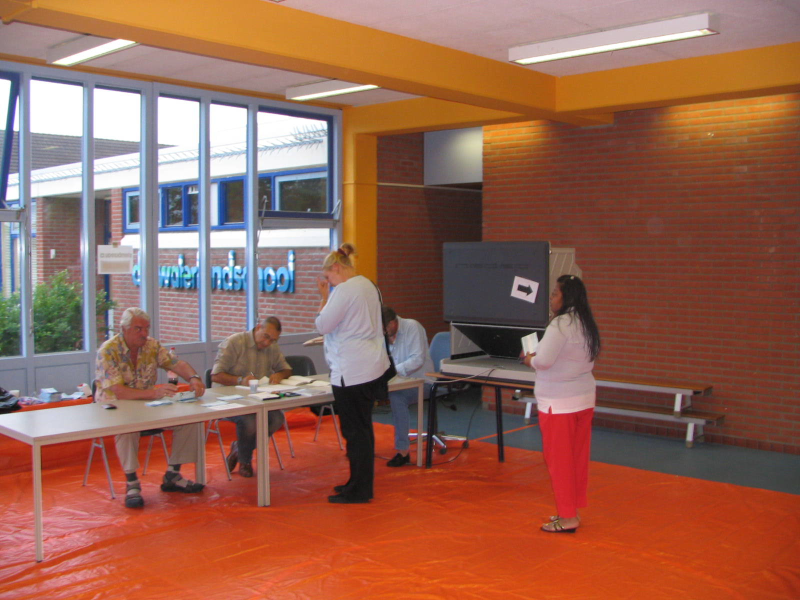 people waiting to vote in the European Parliament election 2004 in the Netherlands. from nl:.